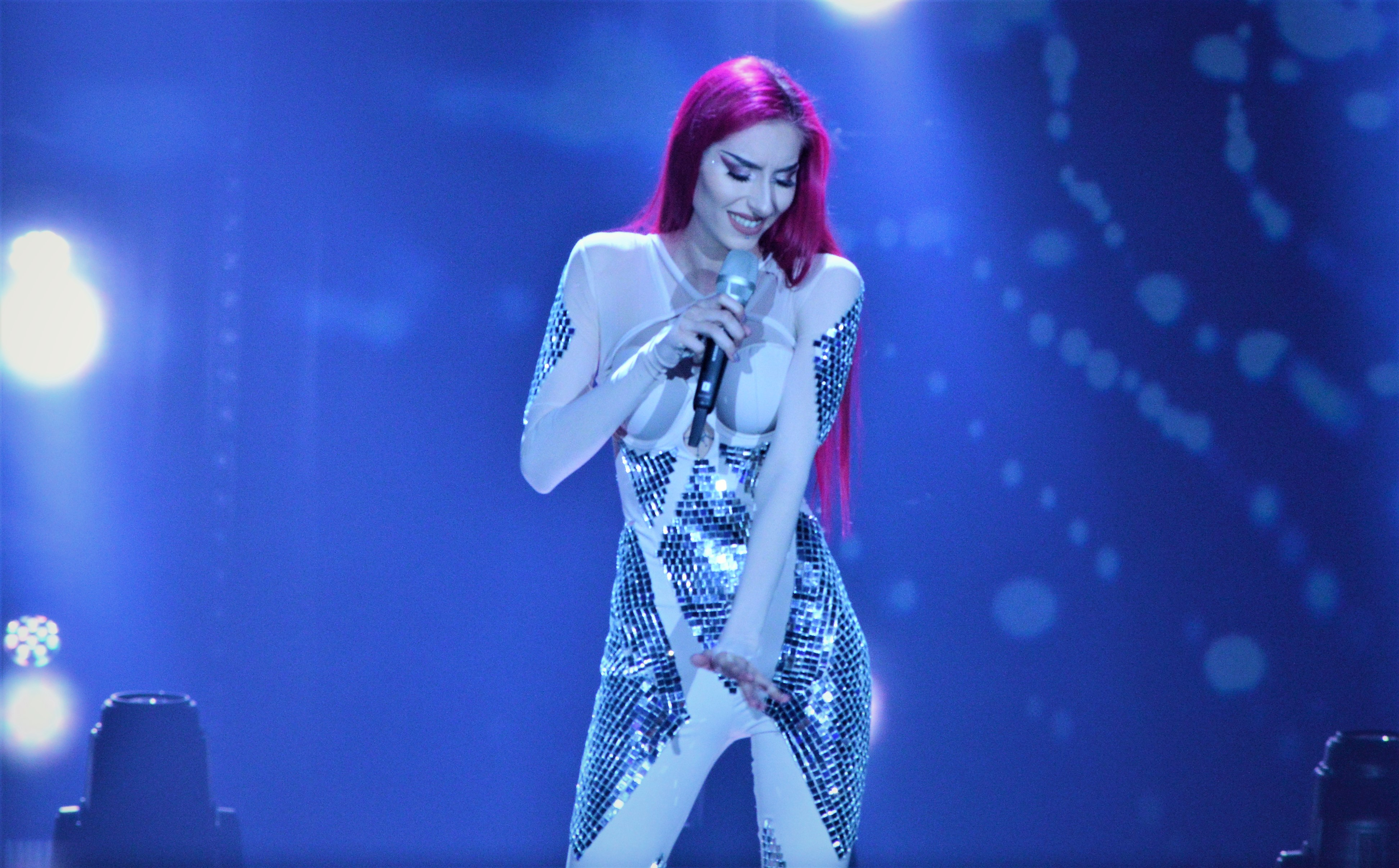 The Slovenian EMA 2017 participant: Raiven